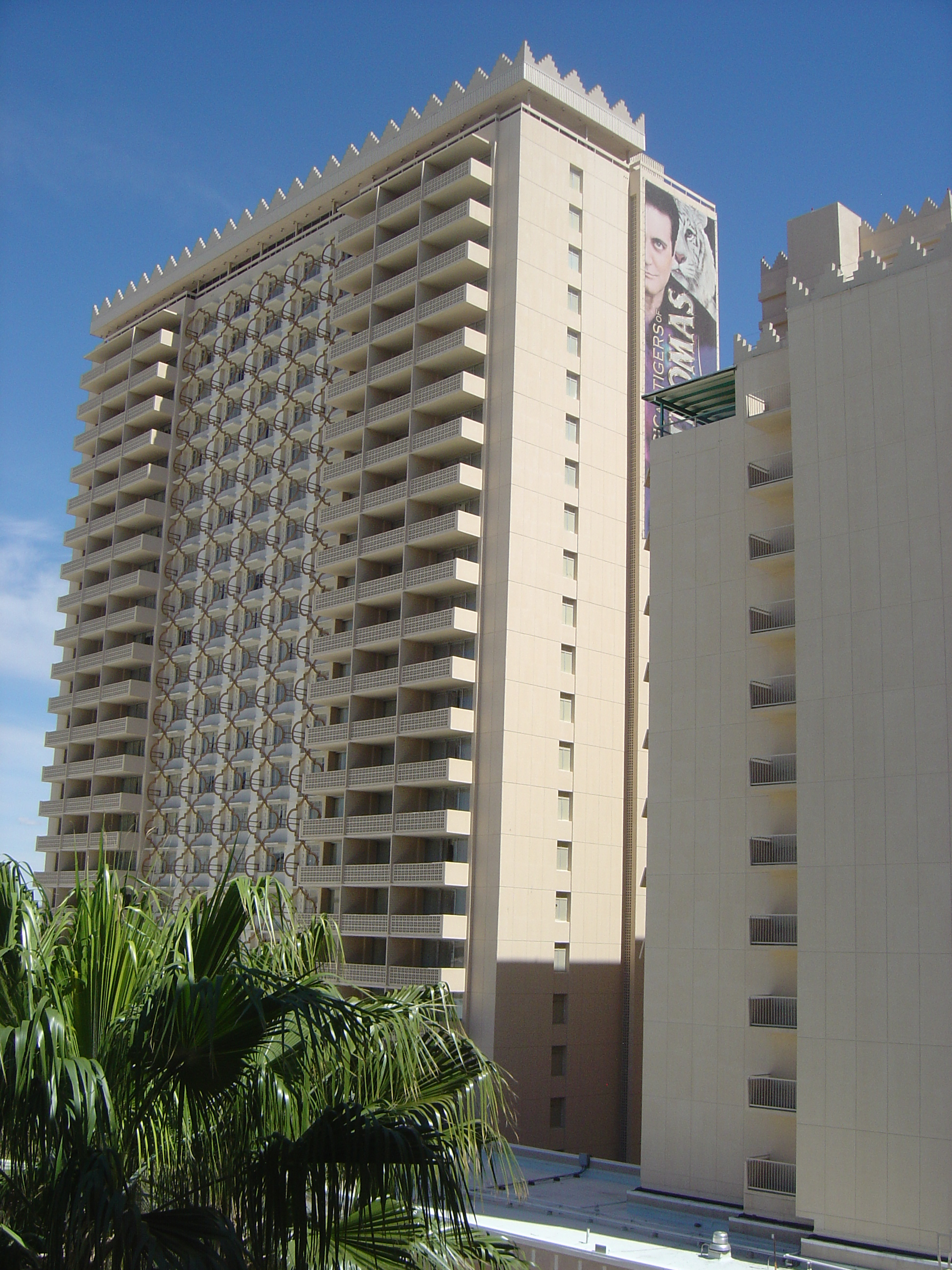 Alexandria Tower at the Sahara hotel-casino in Las Vegas.